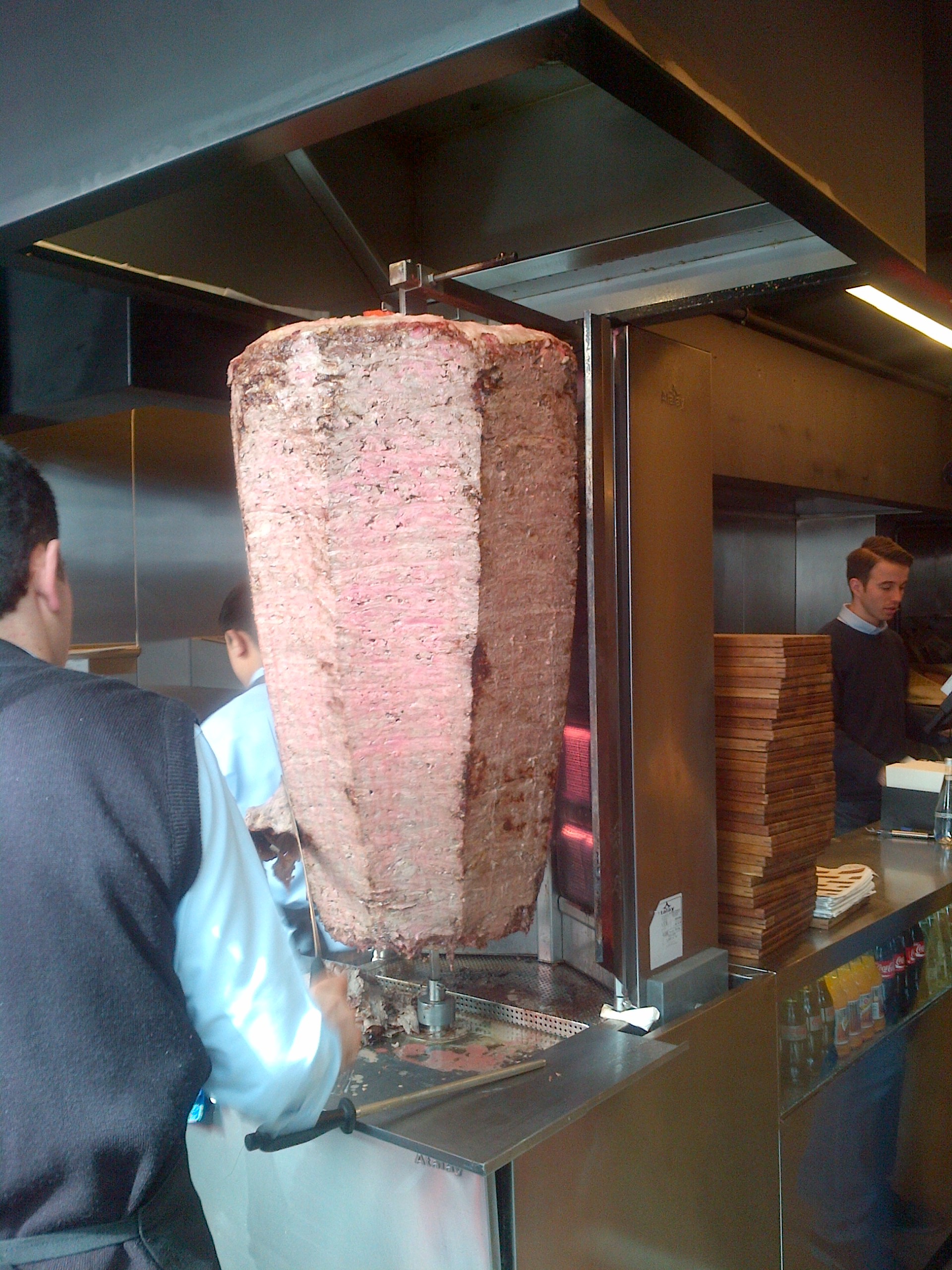 Döner made of veal in Kadıköy, Istanbul.